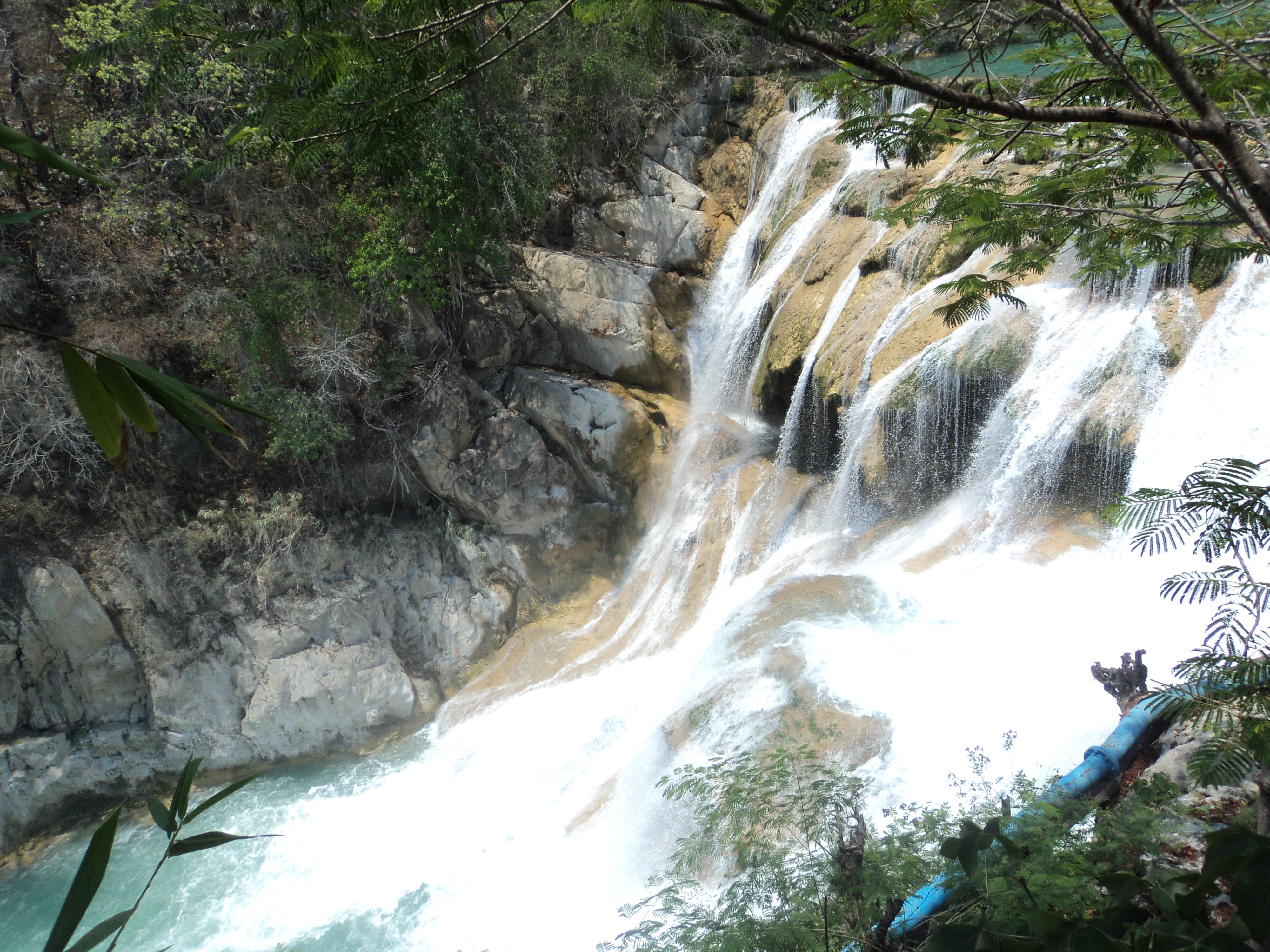 This is an image taken with a Sony camera from 12.5 pixels to the left is completely available for work from my job